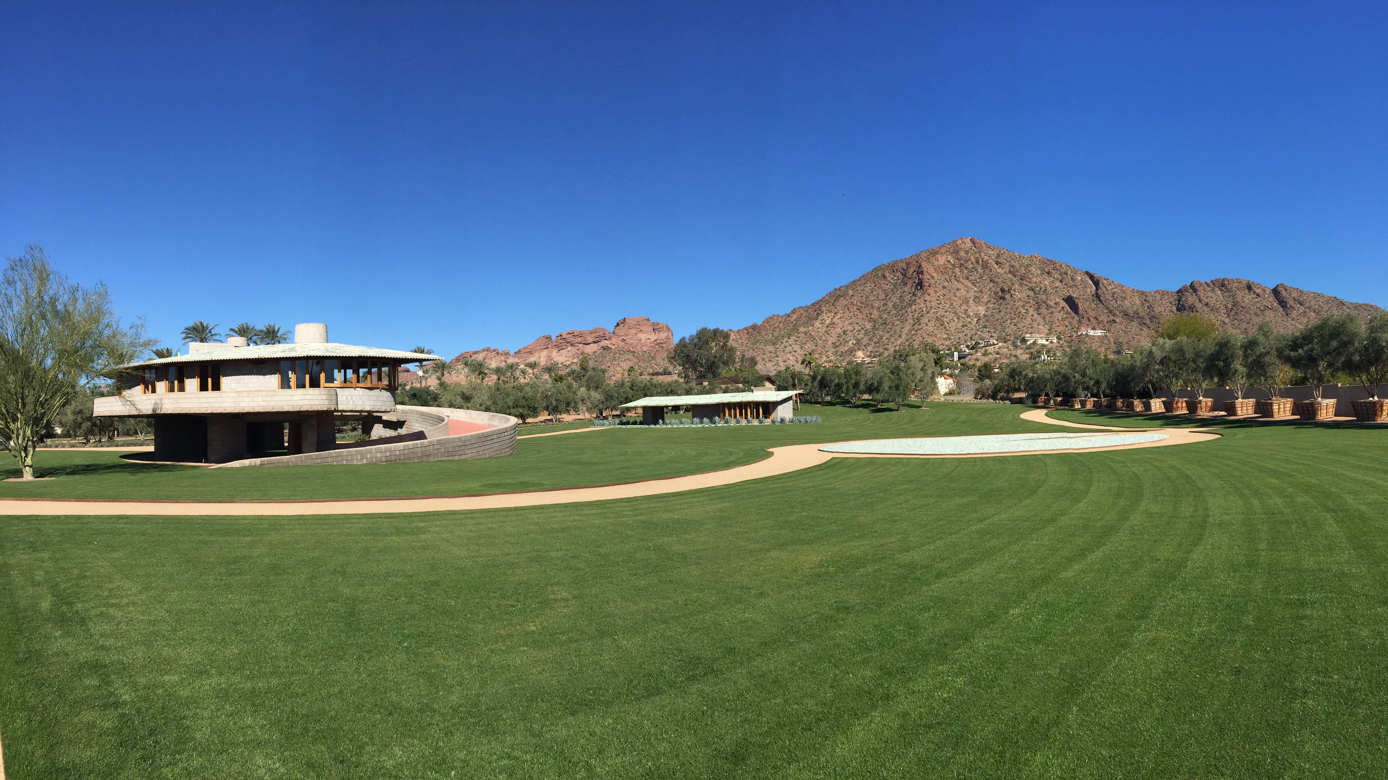 Frank Lloyd Wright designed a home for his son David and Daughter-in-Law Gladys